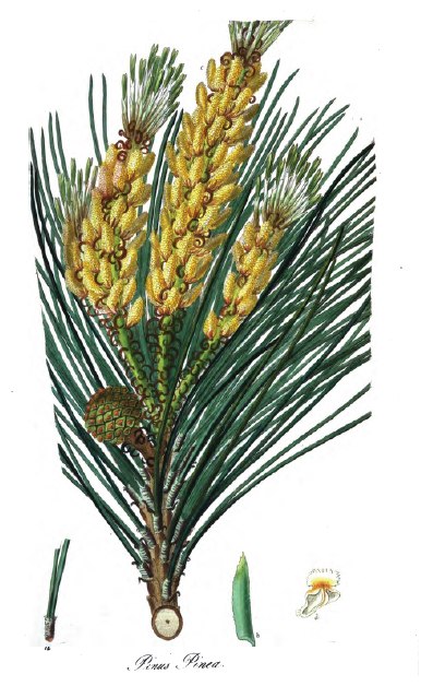 Pinus pinea. Botanical illustration from: Description of the Genus Pinus, with directions relative to the cultivation, remarks on the uses of the several species and descriptions of many other new species of the Family of Coniferae illustrated with figures by Aylmer Bourke Lambert, Esq. London: Messrs. Weddell, MDCCCXXXII